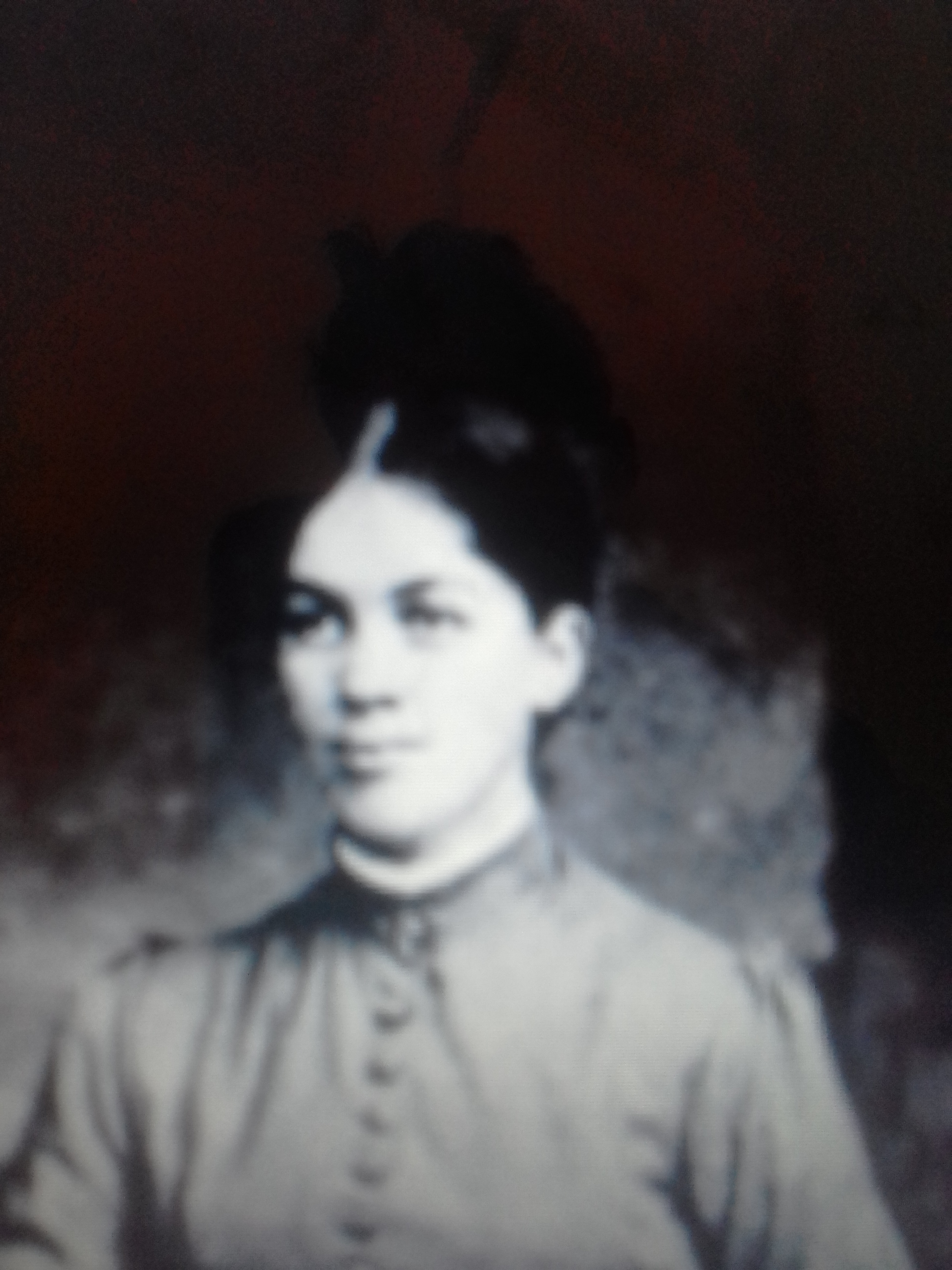 around 1880s